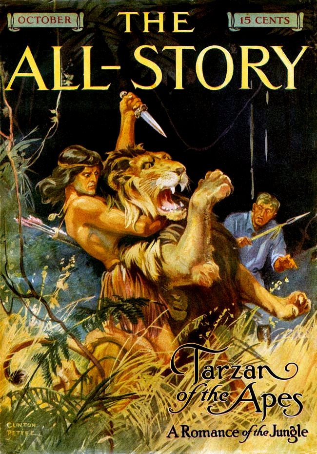 Tarzan of the Apes, by Edgar Rice Burroughs, The All-Story Magazine, October,1912.